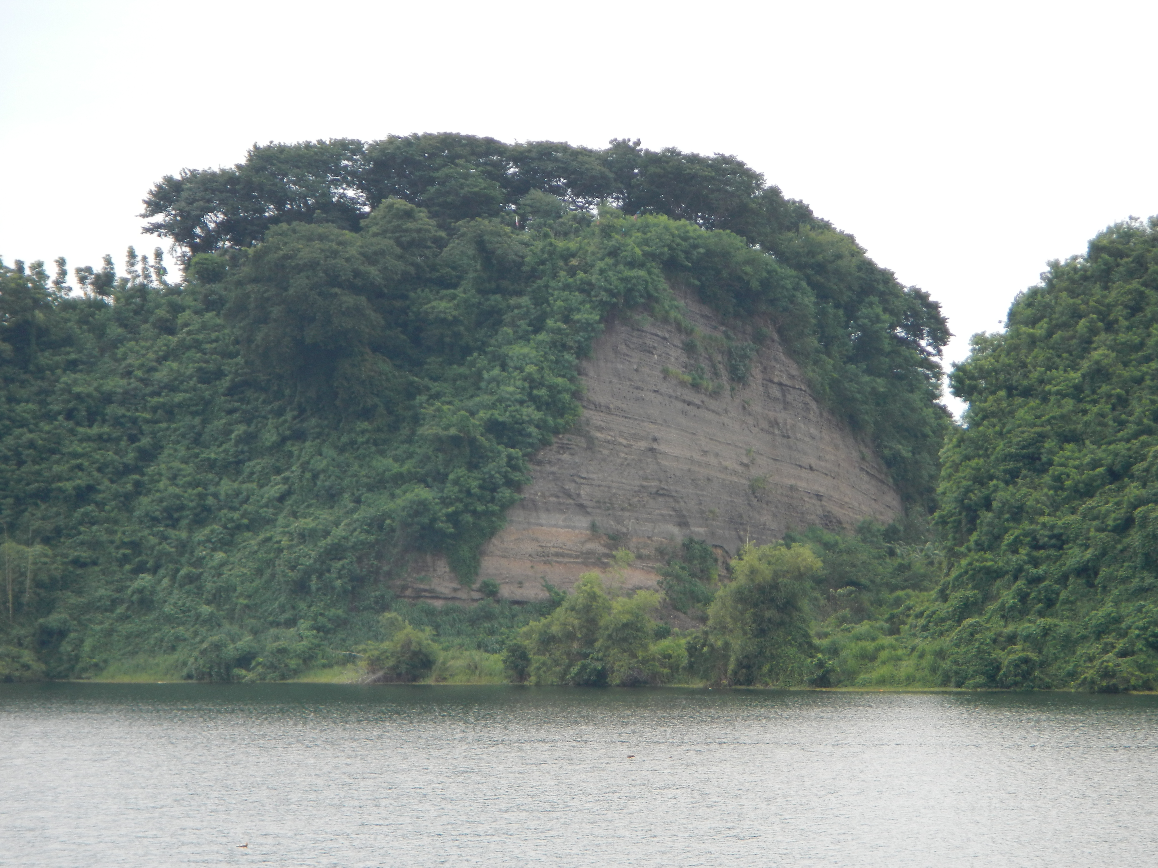 Alligator Lake, Laguna Region IV-A Coordinates 14°10′57″N 121°12′23″E 23 hectares (57 acres) Surface elevation 2 metres (6.6 ft) - Tadlac Lake is one of the eight crater lakes within the Laguna de Bay watershed. Alligator Lake aka Enchanted Lake aka Tadlac Lake. ... List of lakes of the Philippines [1] Also known as Lake Tadlac, it is located along the shore of Laguna de Bay in Brgy. Tadlac, Los Baños - crater lak[2] [3] Multi-Stakeholders’ Efforts for the Sustainable Management of Tadlac Lake, the Philippines A Shower of Bee-eaters [4] Crocodile Lake is a mysterious lake know for its basin-like lake underwater geography, an extinct volcanic crater or maar leading into the core of the earth; Coordinates: 14°10'57"N 121°12'23"E [5] - Los Baños[6]